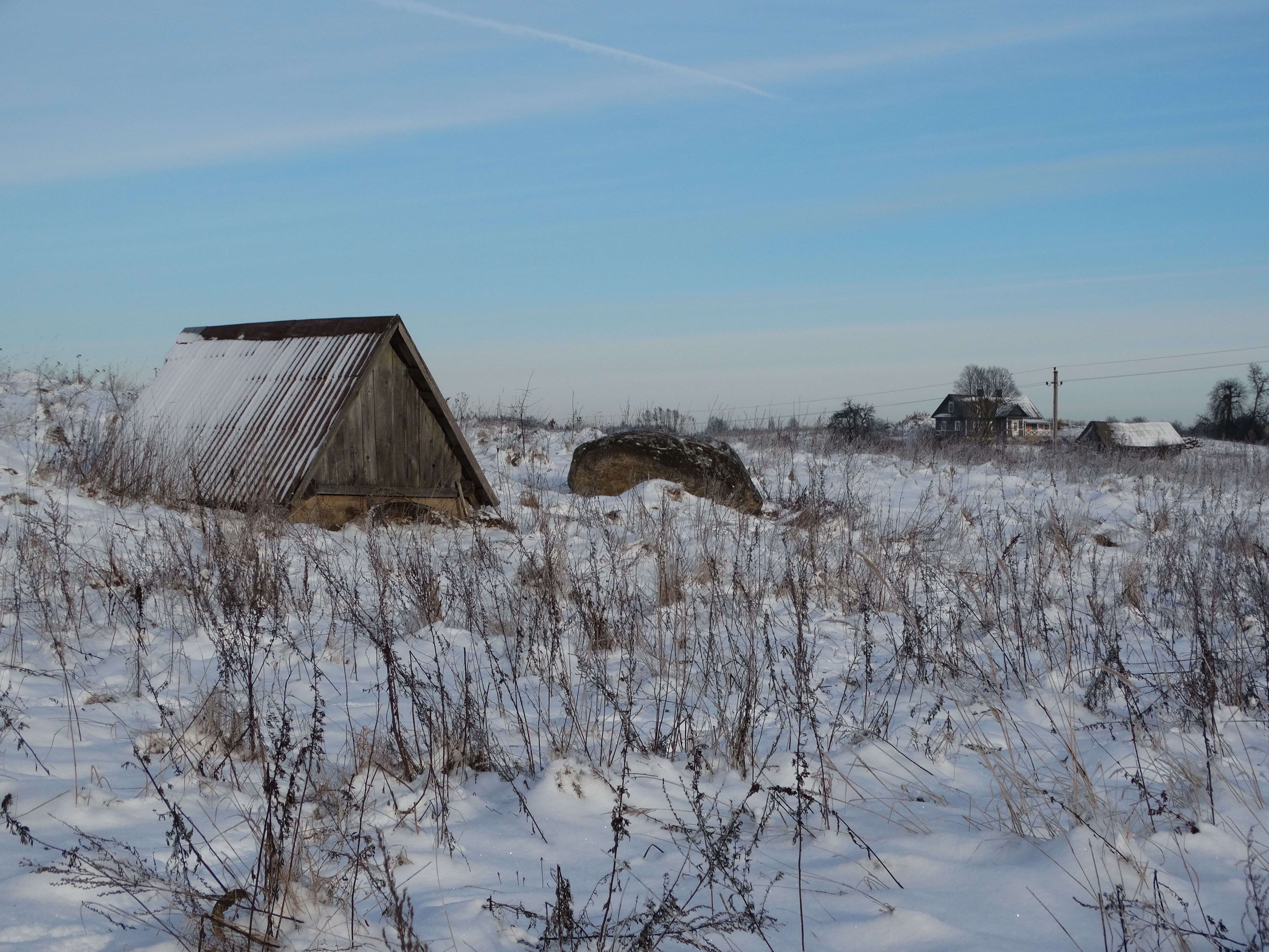 Krakovsky Stone, Trakai district, Lithuania